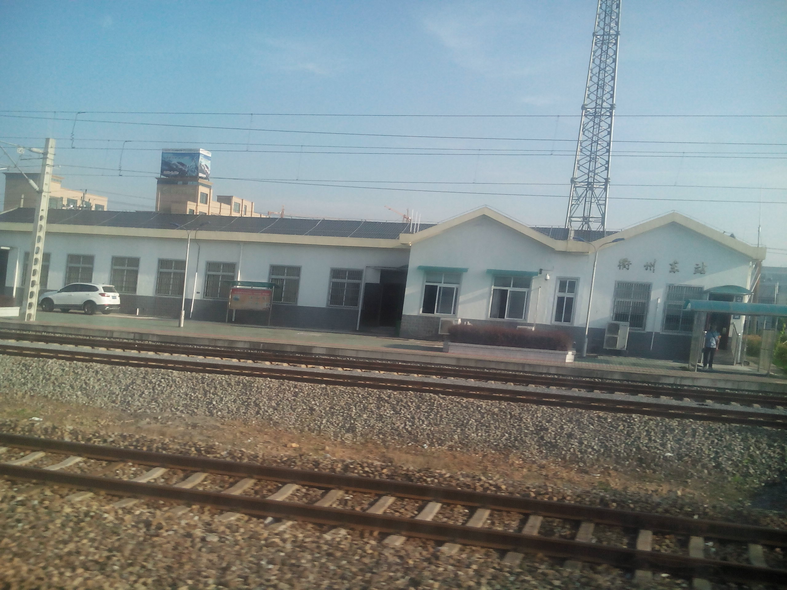 201507 Quzhoudong Railway Station